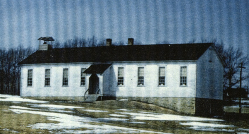 An old post card from the Acme Community Center.